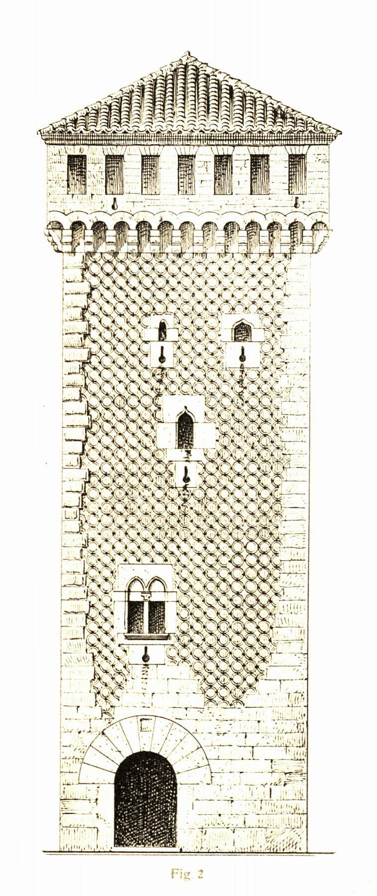 Constantin Uhde, Baudenkmäler in Spanien und Portugal. Aufnahmen einer Reise 1888-1889 Berlin, Verlag von Ernst Wasmuth 1892 Architekt und Professor an der herzoglichen technischen Hochschule in Braunschweig Scanprojekt Bundesdenkmalamt Österreich This scan or this PDF-file was created within the Austrian Wikipedia-project Denkmalpflege Österreich (German only) supported by Wikimedia Germany and Wikimedia Austria as part of the Wikipedia community-project to collect public domain documents from the library of the Heritage Monuments Board of Austria. This document describes or depicts an object which is in various countries. Texts are written in German language. Send requests for uncompressed scans to Hubertl. This work is in the public domain in the United States, and those countries with a copyright term of life of the author plus 100 years or less. This file has been identified as being free of known restrictions under copyright law, including all related and neighboring rights.